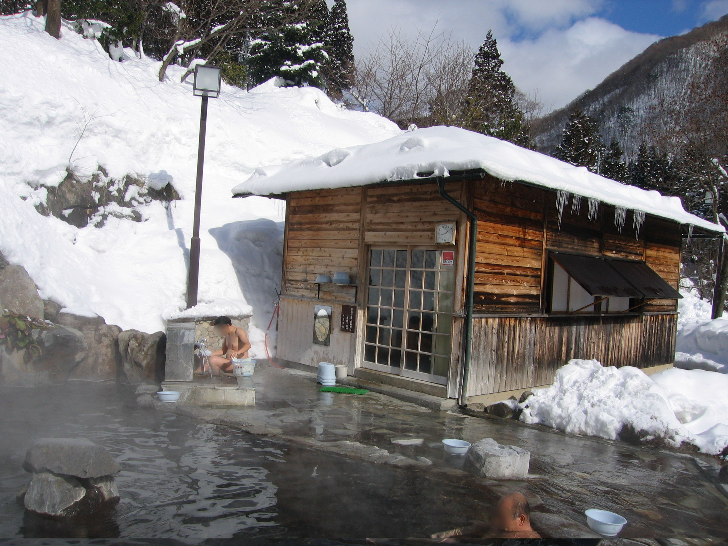 Photo by Yosemite 11:46, 25 November 2005 (UTC). Maguse Onsen is Category:Onsen in Japan.